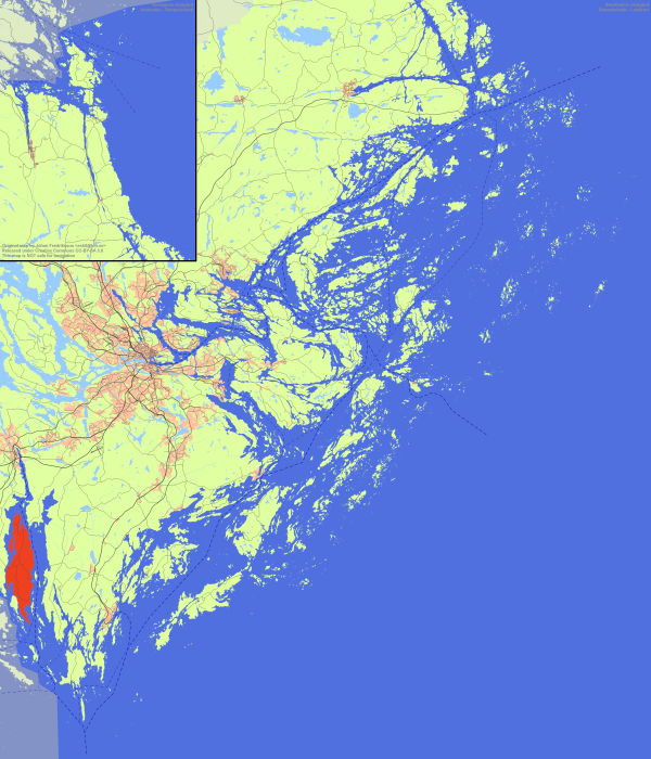 Location of the island Mörkö